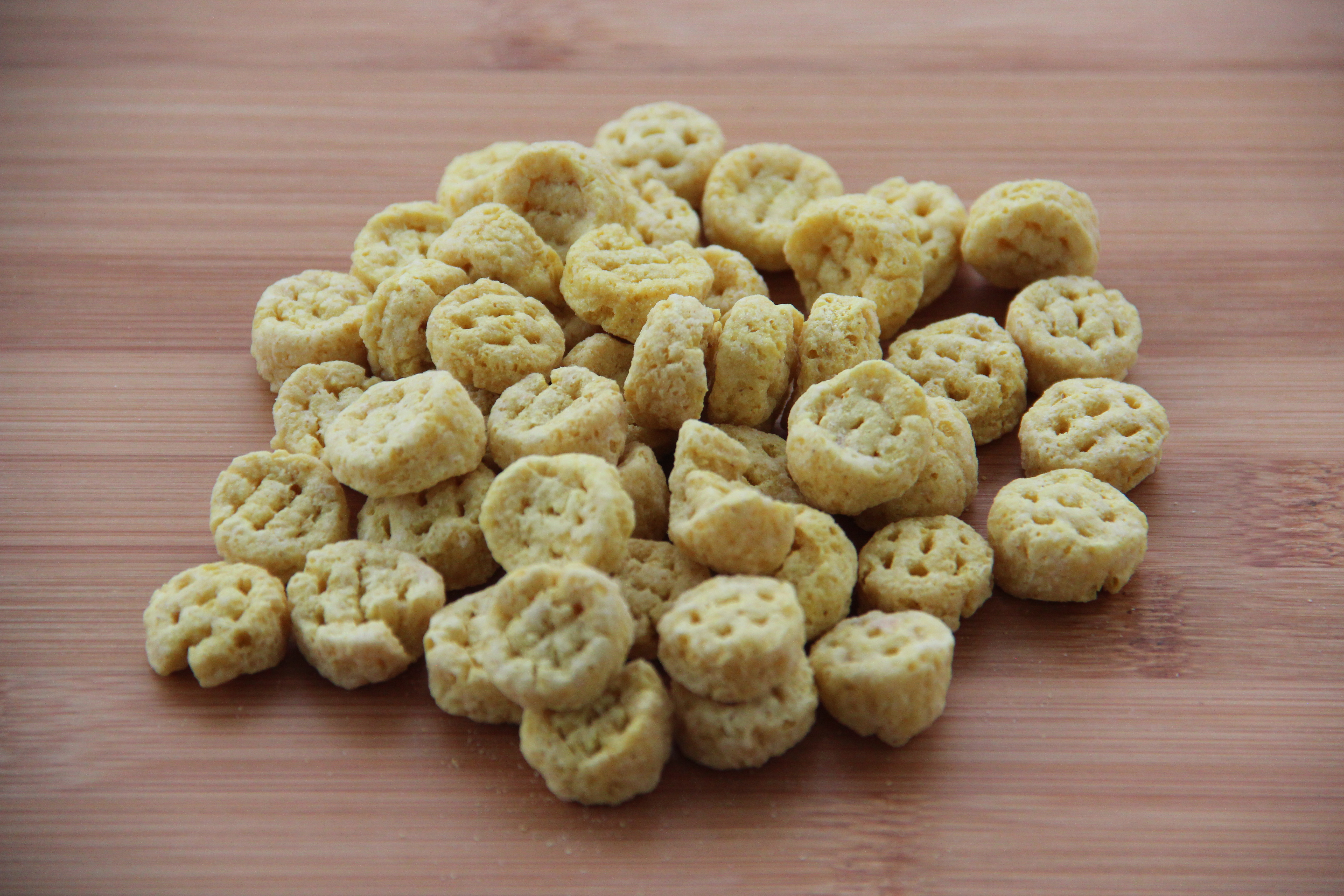 A pile of Eggo Cereal, Jan 2020